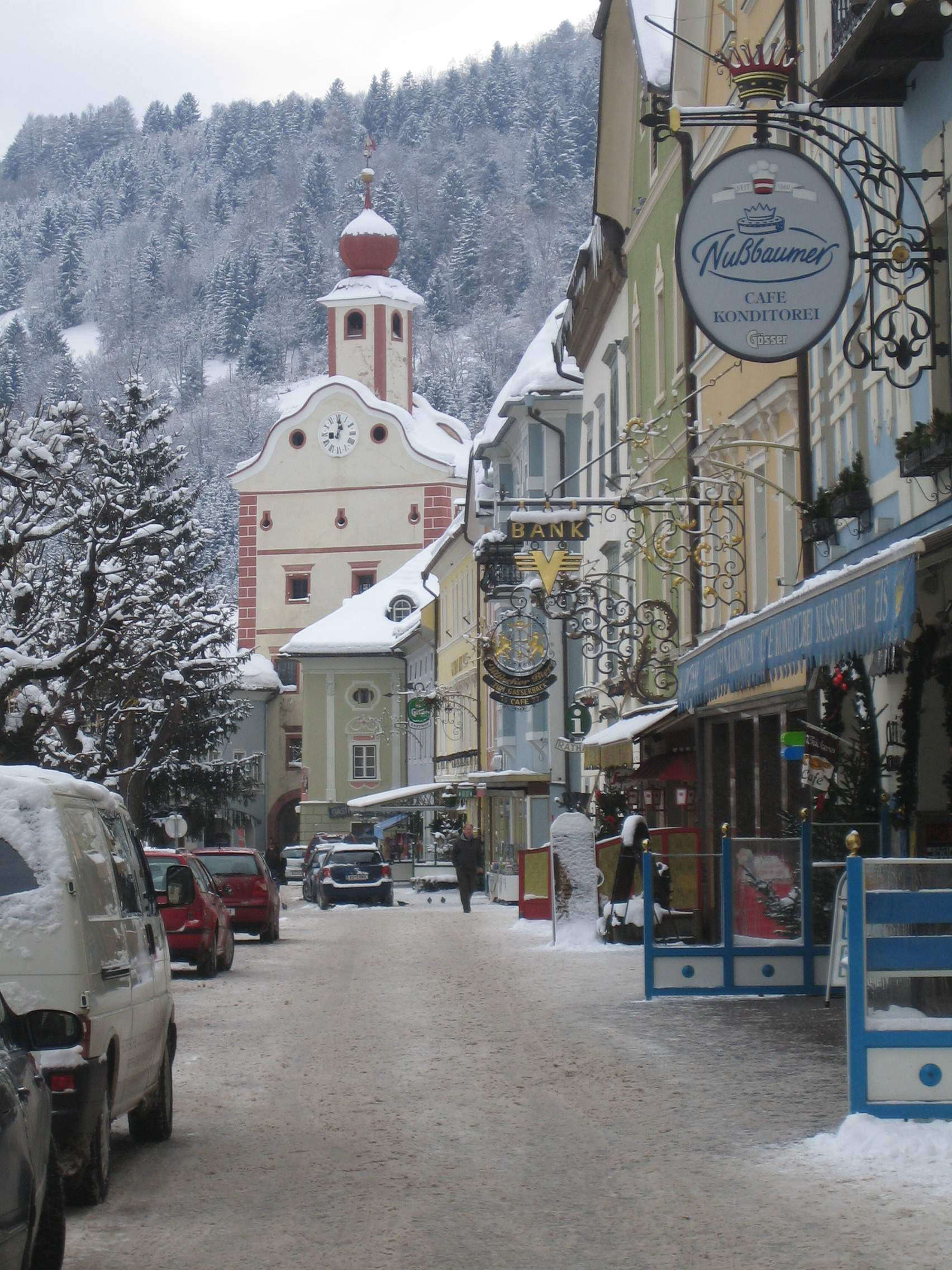 Gmünd, Carinthia, Austria.